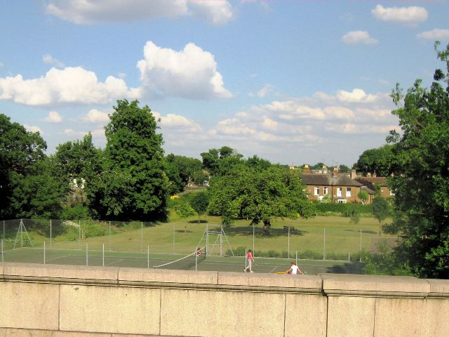 Westerley Ware, by Kew Bridge Westerley Ware is a small garden and recreation ground at the foot of Kew Bridge. It has a quiet hedge-bordered memorial garden, a grass area, three hard tennis courts and a children’s playground containing many new items of play equipment. It was originally created as a memorial garden to the fallen in the First World War, the name refers to the practice of netting weirs or "wares" to catch fish.